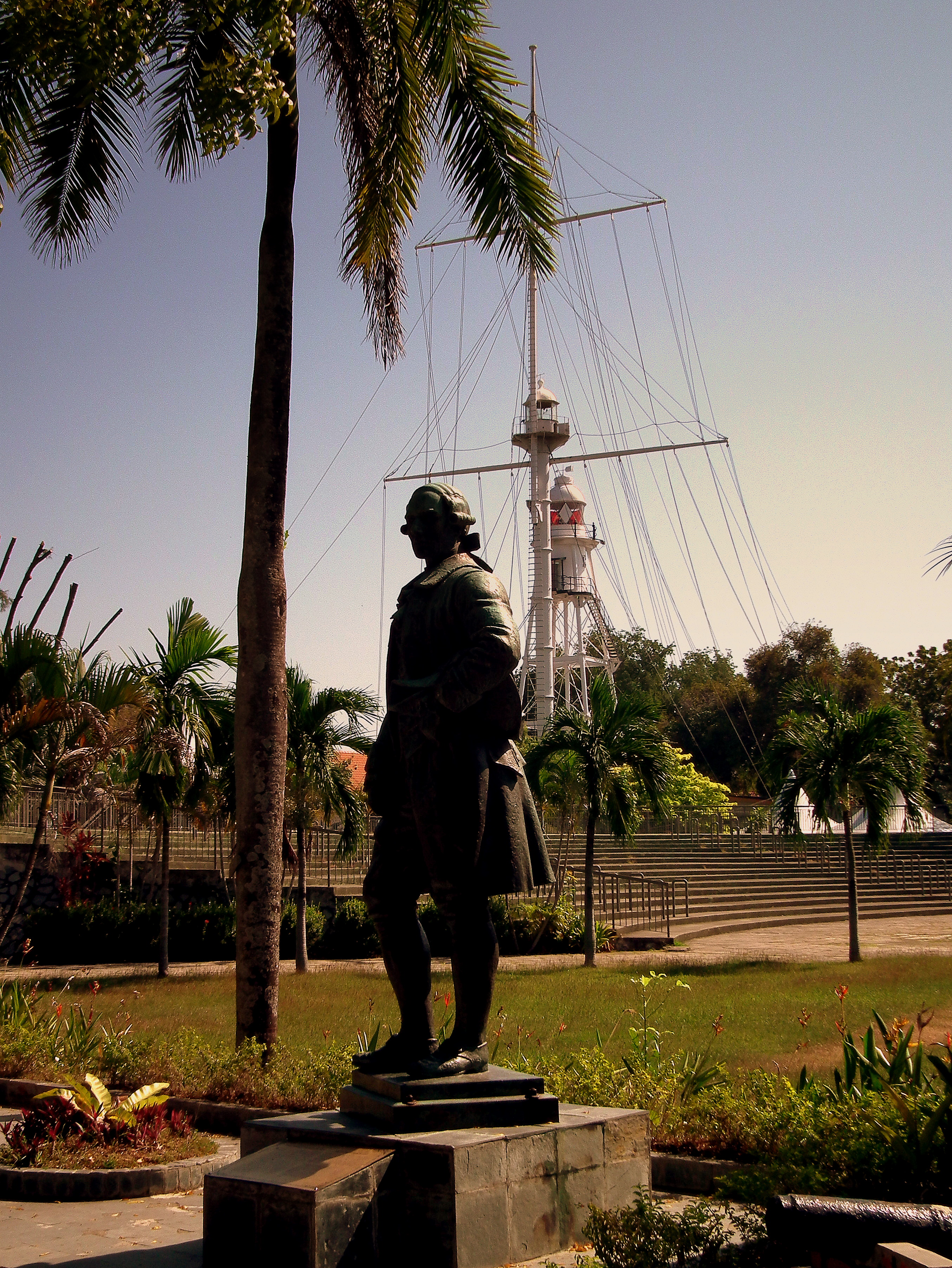 FORT CORNWALLIS GEORGETOWN PENANG ISLAND MALAYSIA JAN 2012 -Statue of Francis Light, marking the first step of British expansion in the Malay Archipelago.